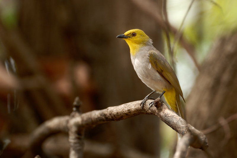 Yellow-throated bulbul photographed in Alayar dam in anamalais.